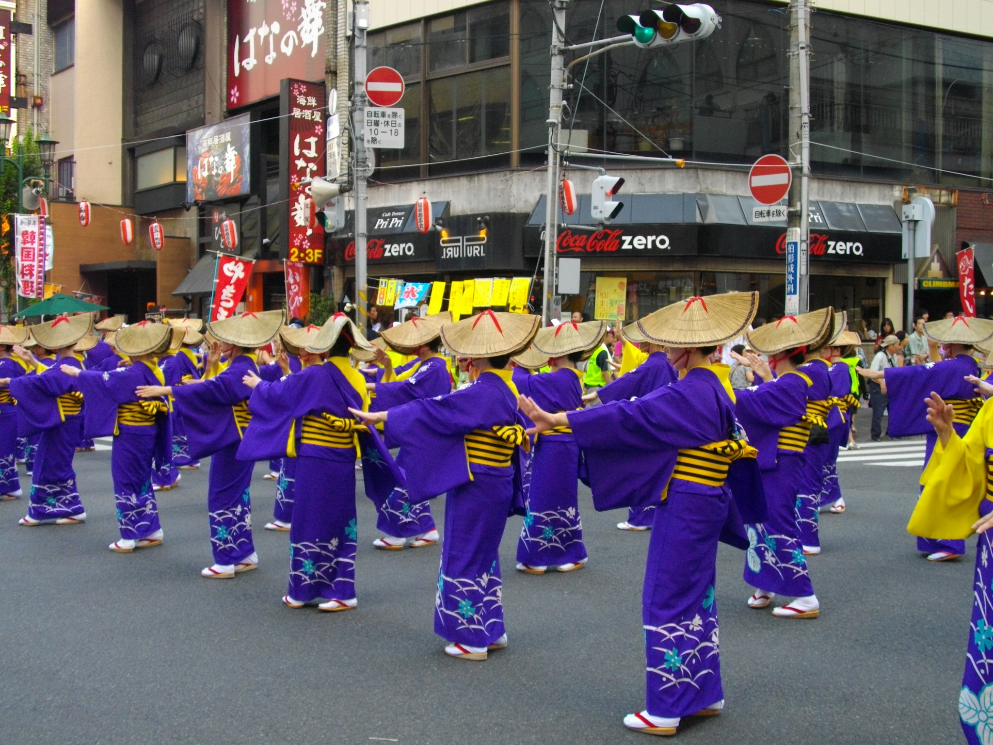 Kashiwa Odori